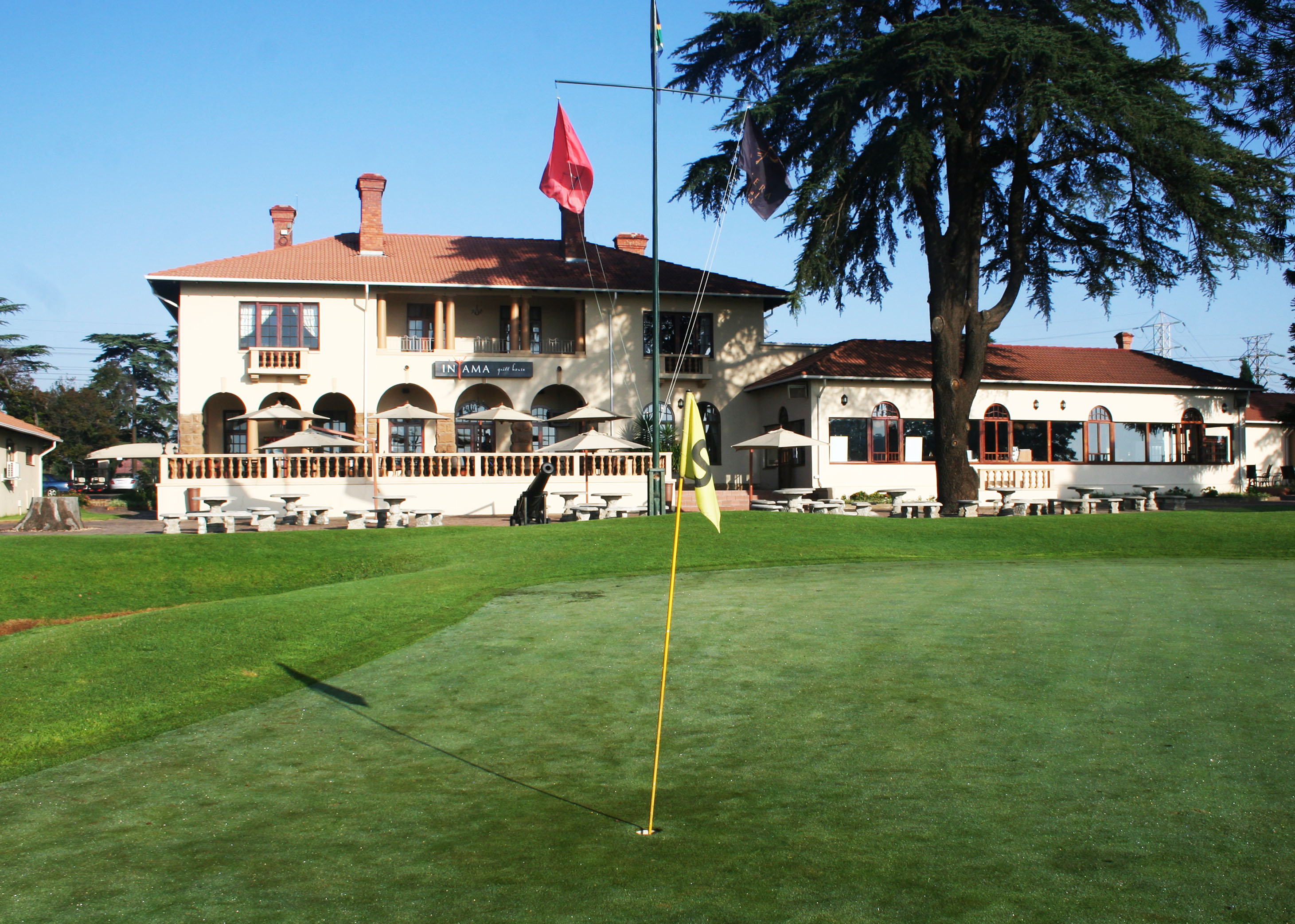 The site where the Riviera on Vaal Country Club is situated today has been a popular relaxation spot for many visitors since as early as the 1920s. This media shows a South African Protected Site with SAHRA file reference 9/2/277/0002.